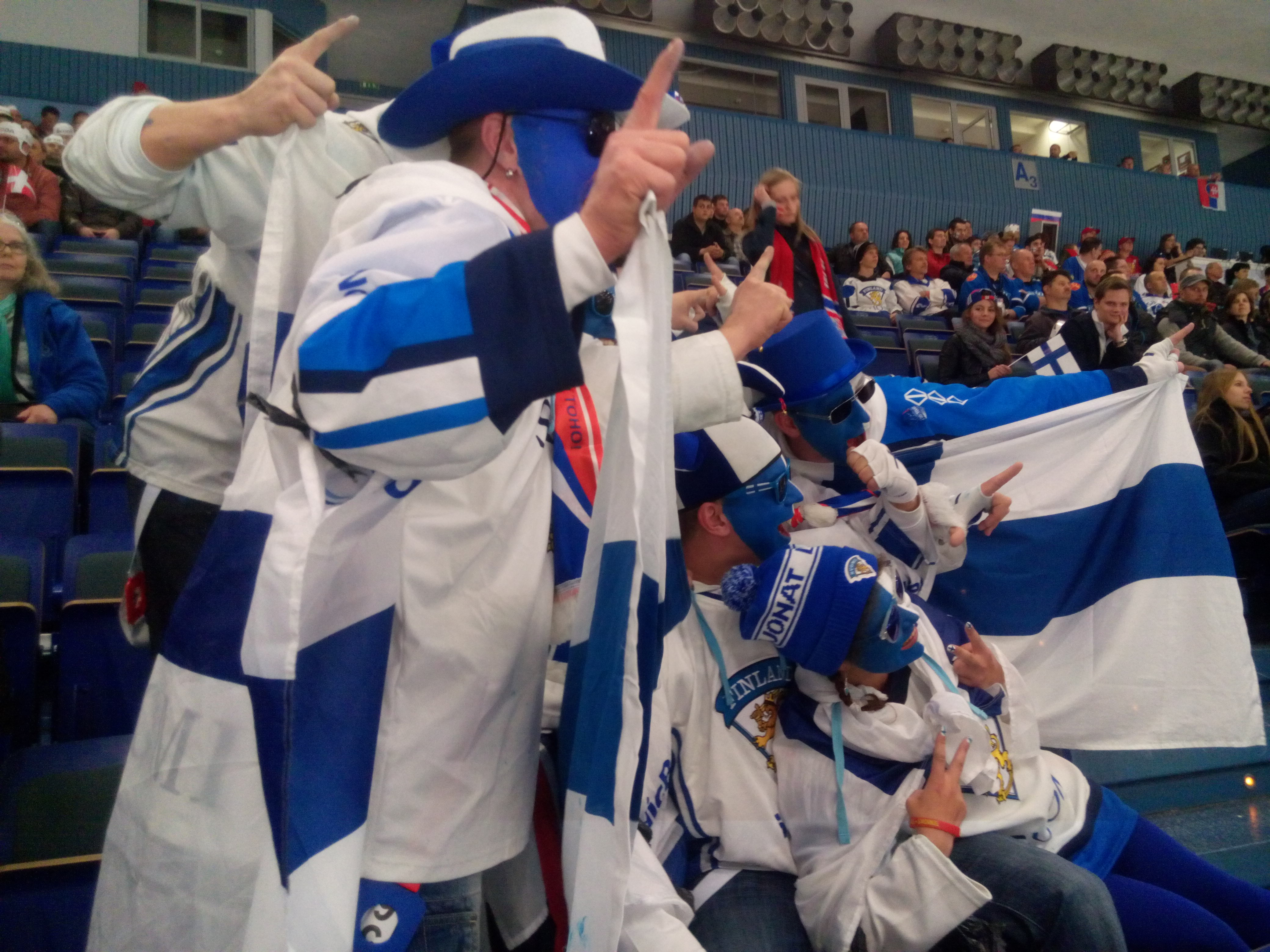 en:2015 IIHF World Championship in Ostrava – finnish fans during the match preliminary round between Denmark and Finland